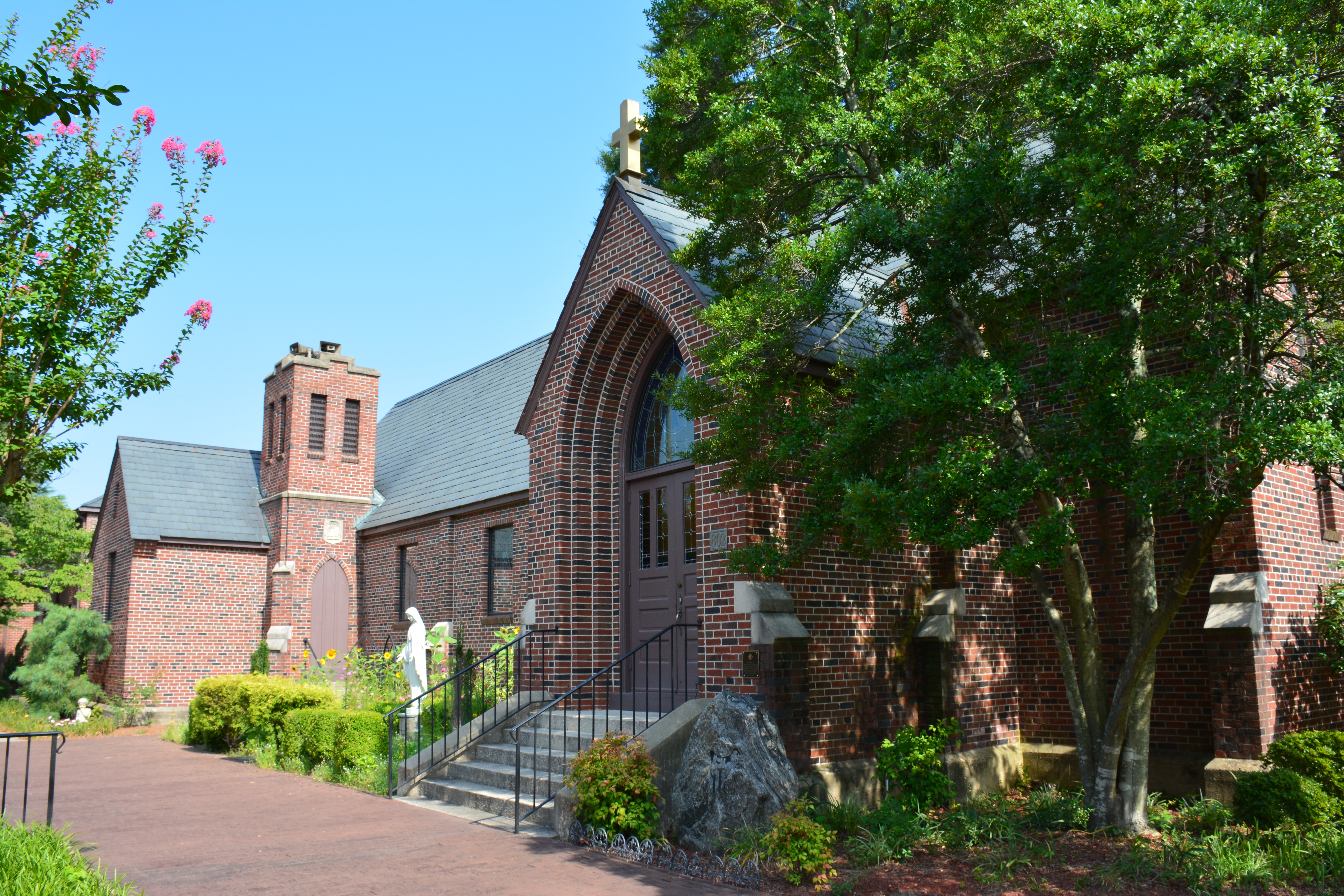 Haymount District A view of the Saint Michael's Catholic Church, 802 Arsenal Avenue in Fayetteville, Cumberland County, North Carolina.